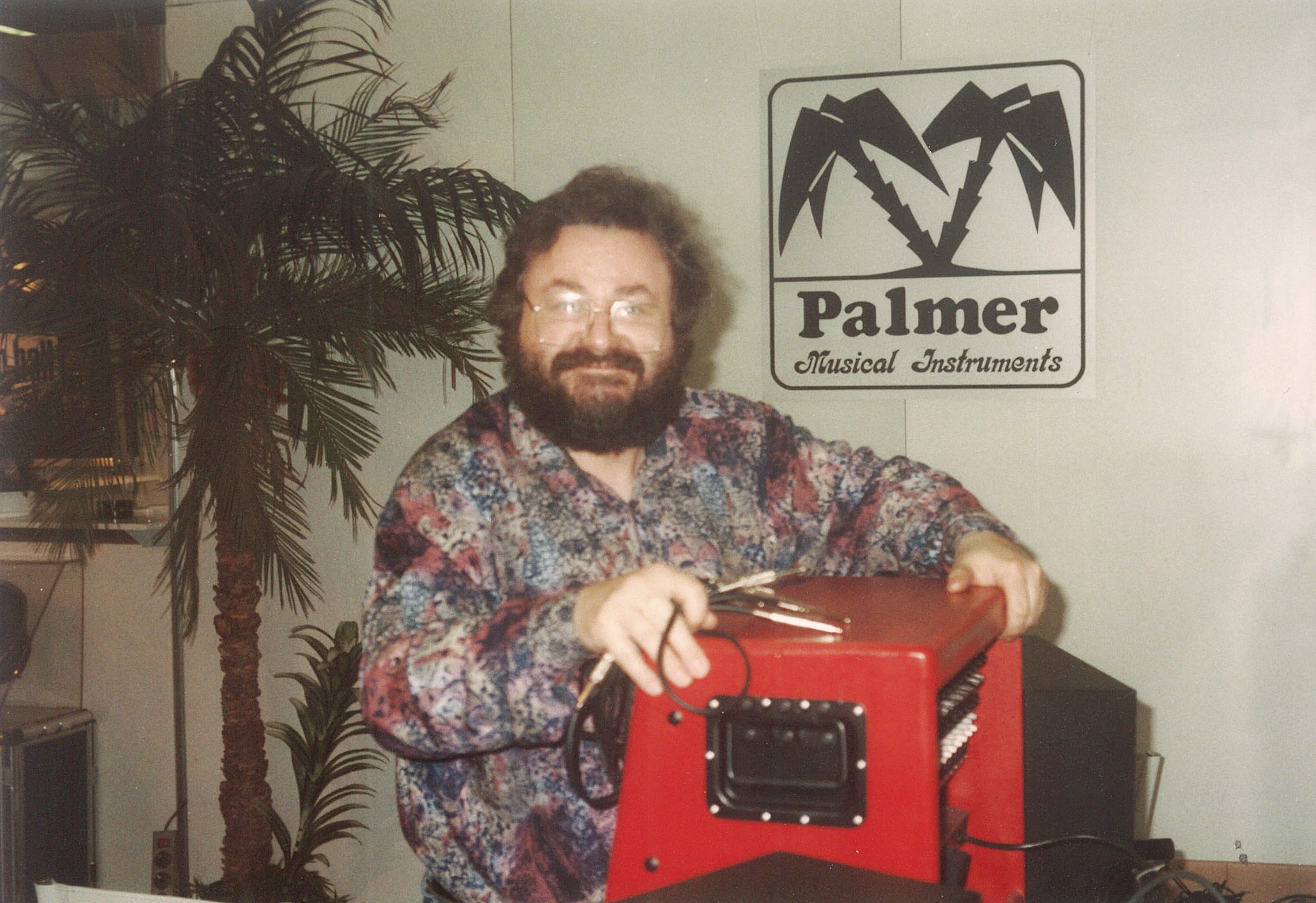 Mr. Martin Schmitz from Palmer 1990